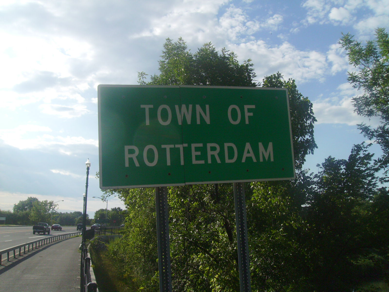 Town of Rotterdam sign on NY Route 5 Westbound.